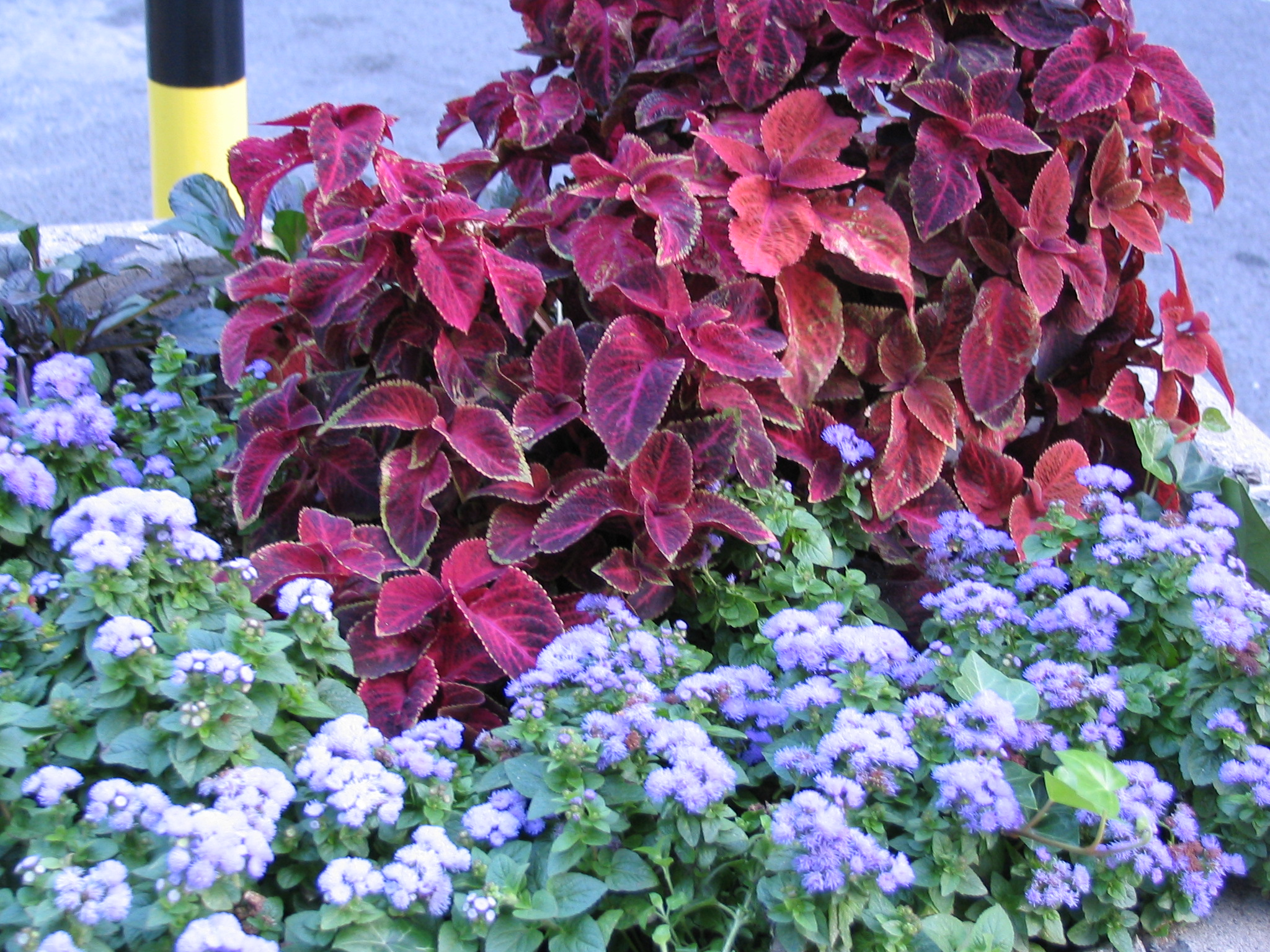 Ageratum and Coleus